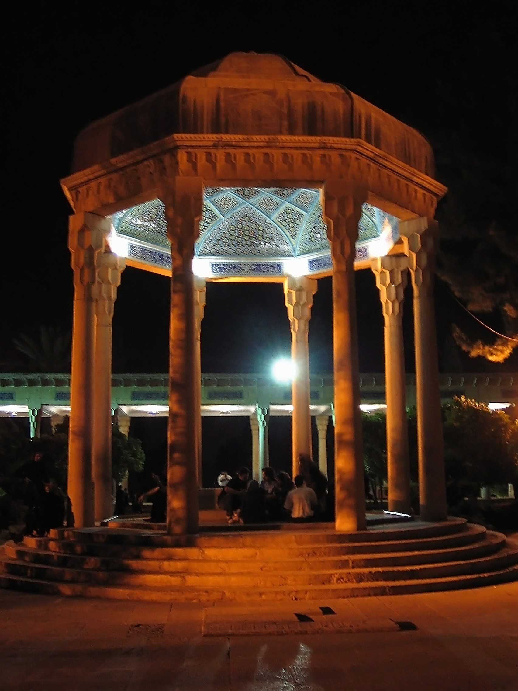 Mausoleum of Hafez at night — in Shiraz, Fars province, Iran.